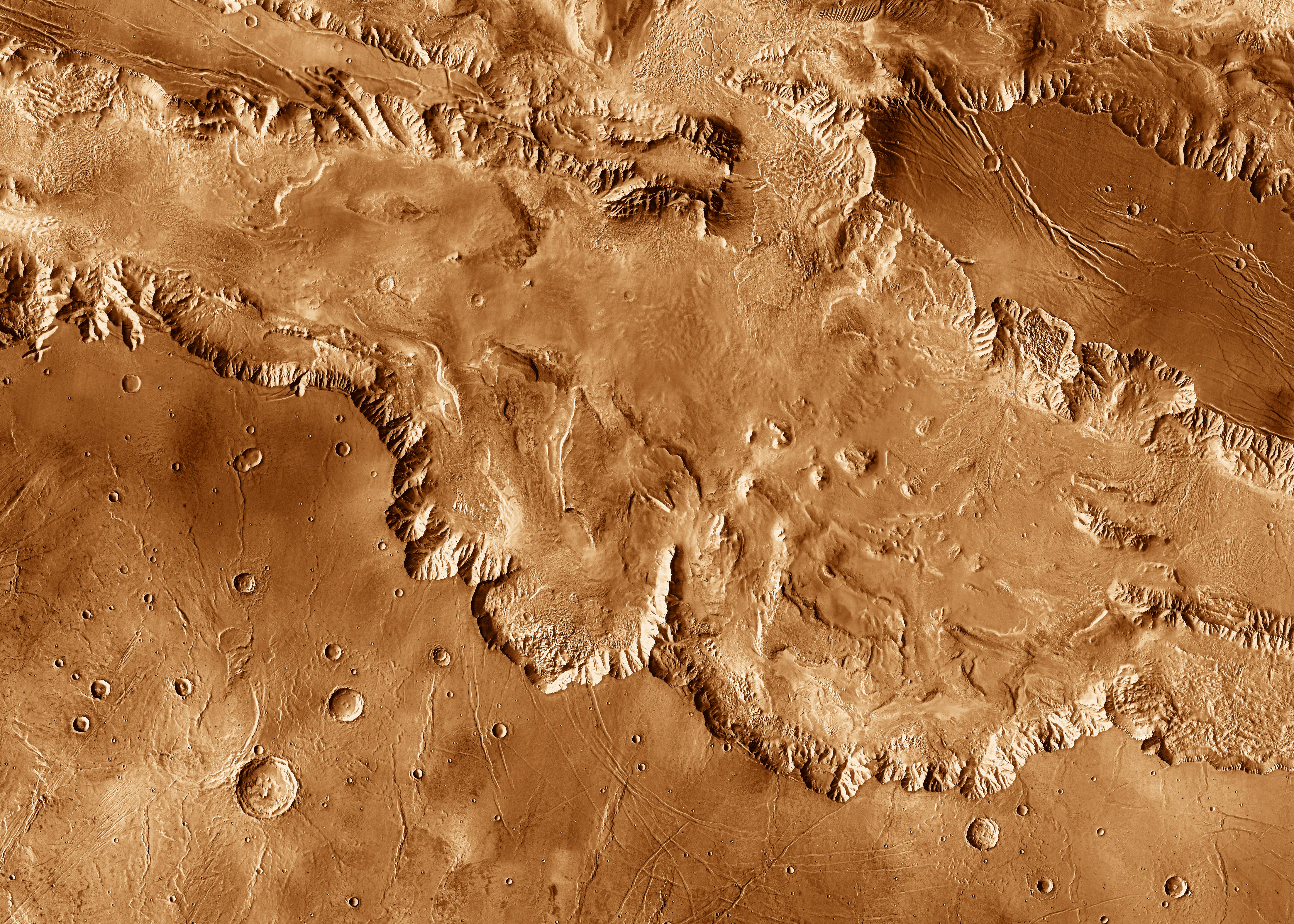 View of Melas Chasma, with parts of Ius, Candor and Coprates chasmata visible at the upper left, top and lower right, respectively, parts of the enormous Valles Marineris canyon system on Mars. This image was obtained by cropping a massive 23,711 × 11,856 pixel mosaic of NASA images, and adjusting in hue and saturation. The original caption for the mosaic reads in part as follows: This mosaic image of Valles Marineris - colored to resemble the martian surface - comes from the Thermal Emission Imaging System (THEMIS), a visible-light and infrared-sensing camera on NASA's Mars Odyssey orbiter. Mars Odyssey was built by Lockheed Martin and the mission is operated by the Jet Propulsion Laboratory. Built from more than 500 daytime infrared photos, the mosaic shows the whole valley in more detail than any previous composite photo. Despite the valley's huge extent - including its western extension through Noctis Labyrinthus, it reaches some 3,000 kilometers (2,000 miles) long - the smallest details visible in the image are about the size of a football field: 100 meters (328 feet).